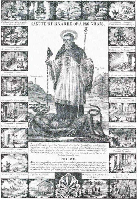 Printed devotional broadsheet of Saint Bernard of Menthon, 18th cent.